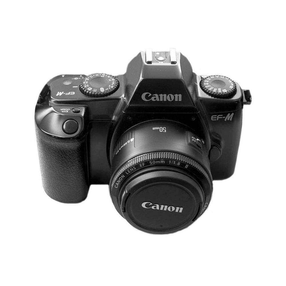 Canon EF-M camera